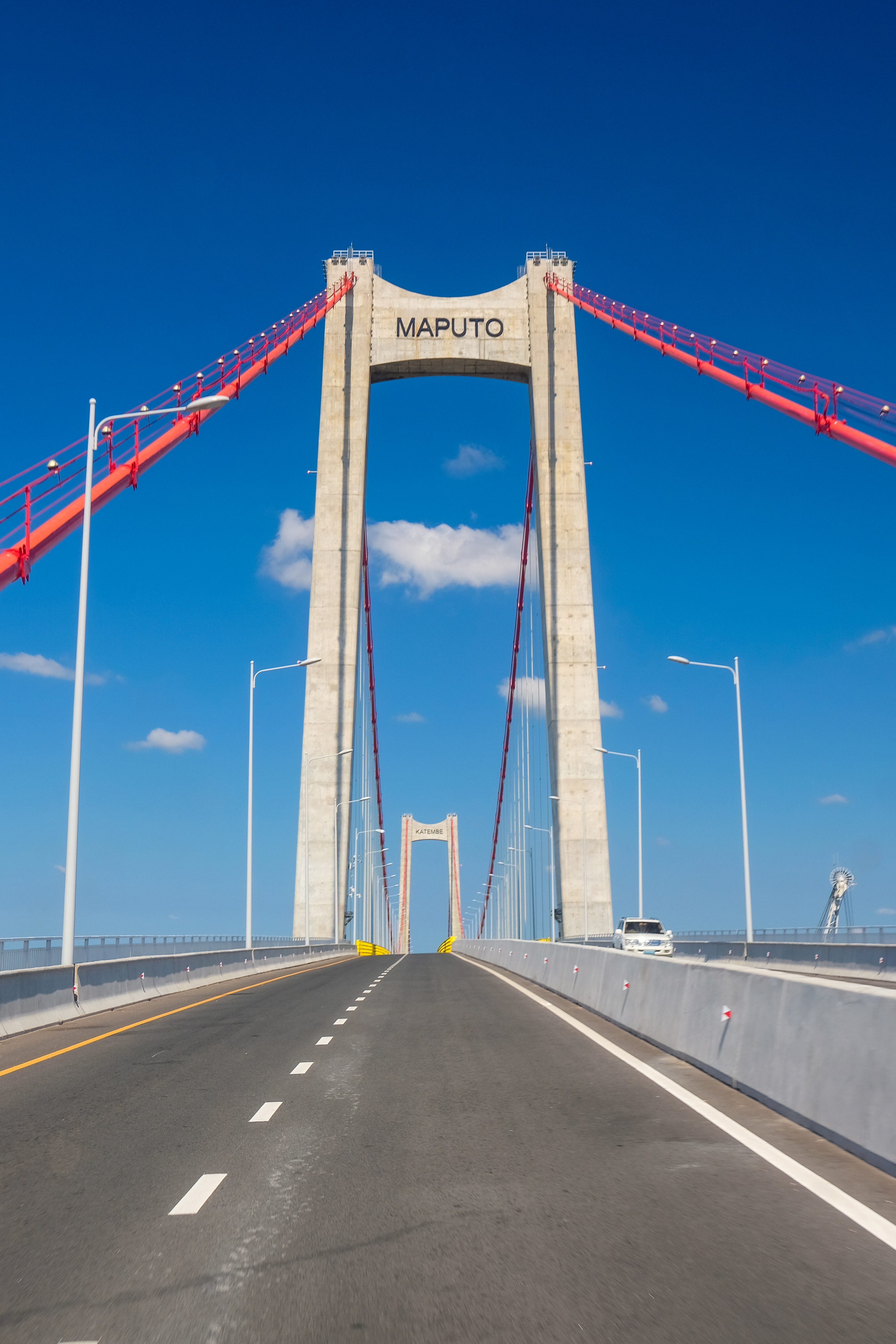 This is an image with the theme "Africa on the Move or Transport" from: Mozambique